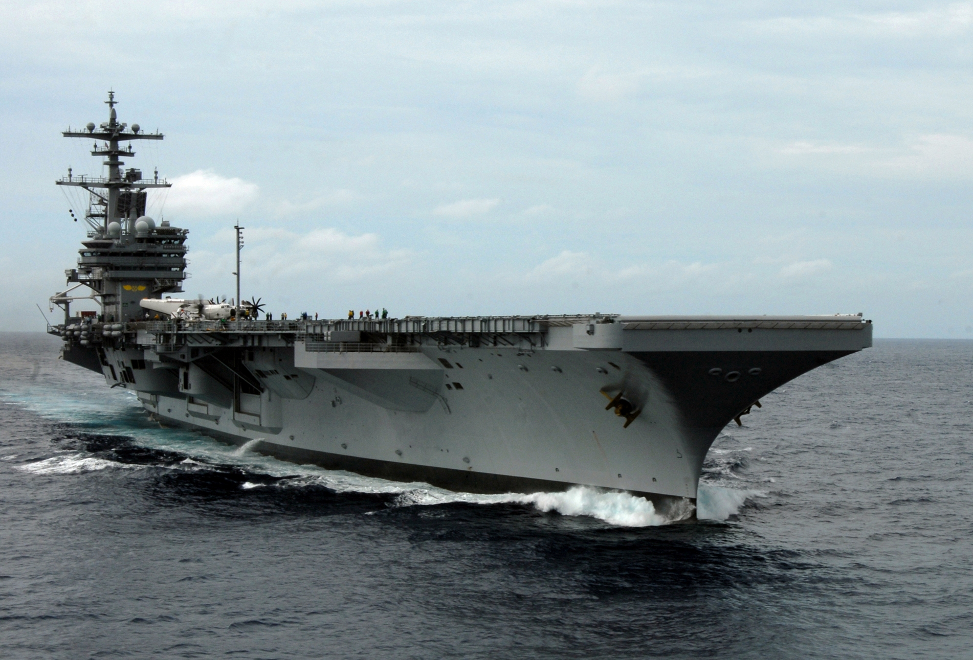 The U.S. Navy's newest Nimitz-class aircraft carrier USS George H. W. Bush (CVN 77) underway in the Atlantic Ocean conducting carrier qualifications.